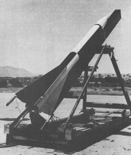 Asp sounding rocket in the monorail launcher.